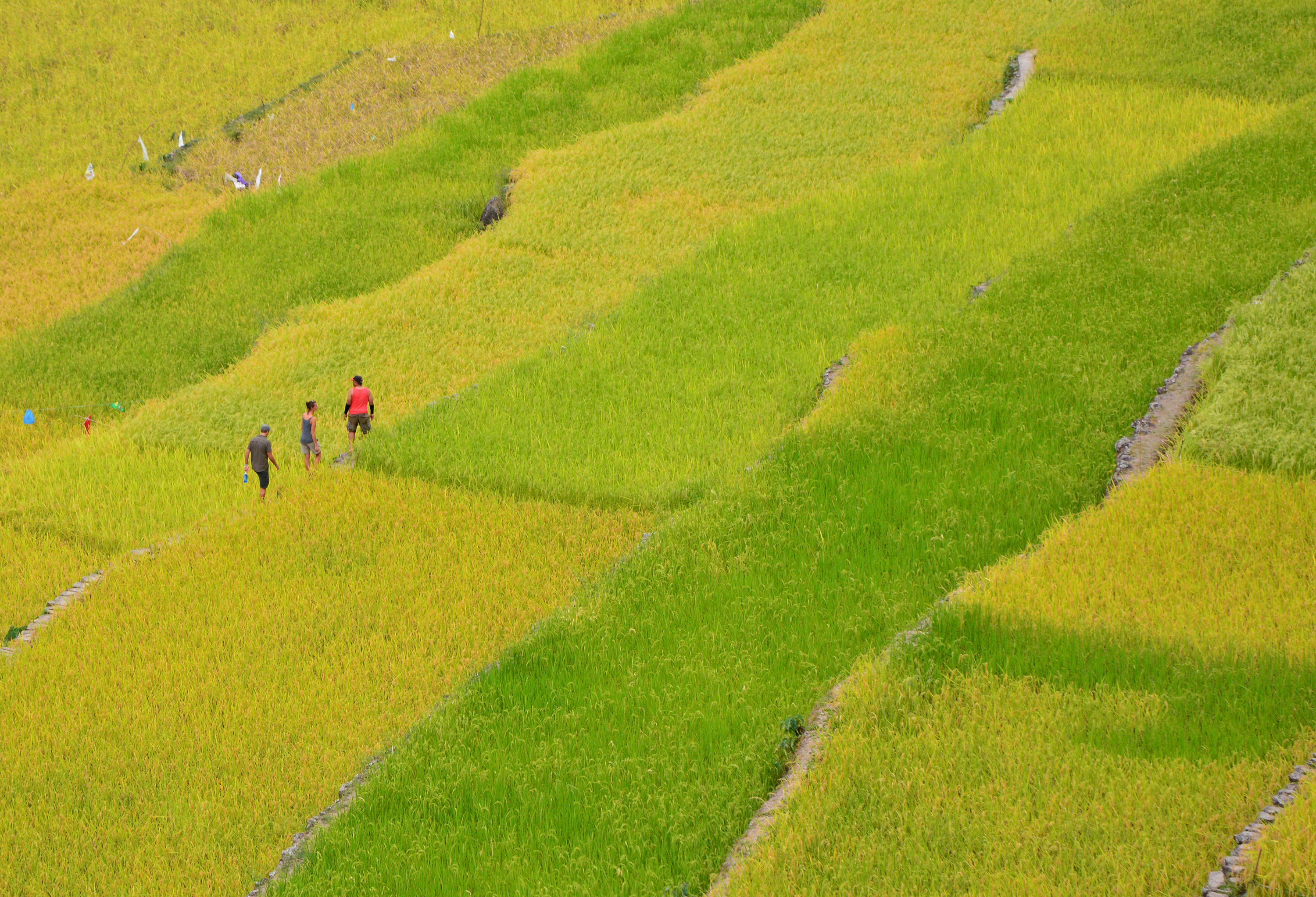 Moment at the Batad Rice Terraces...